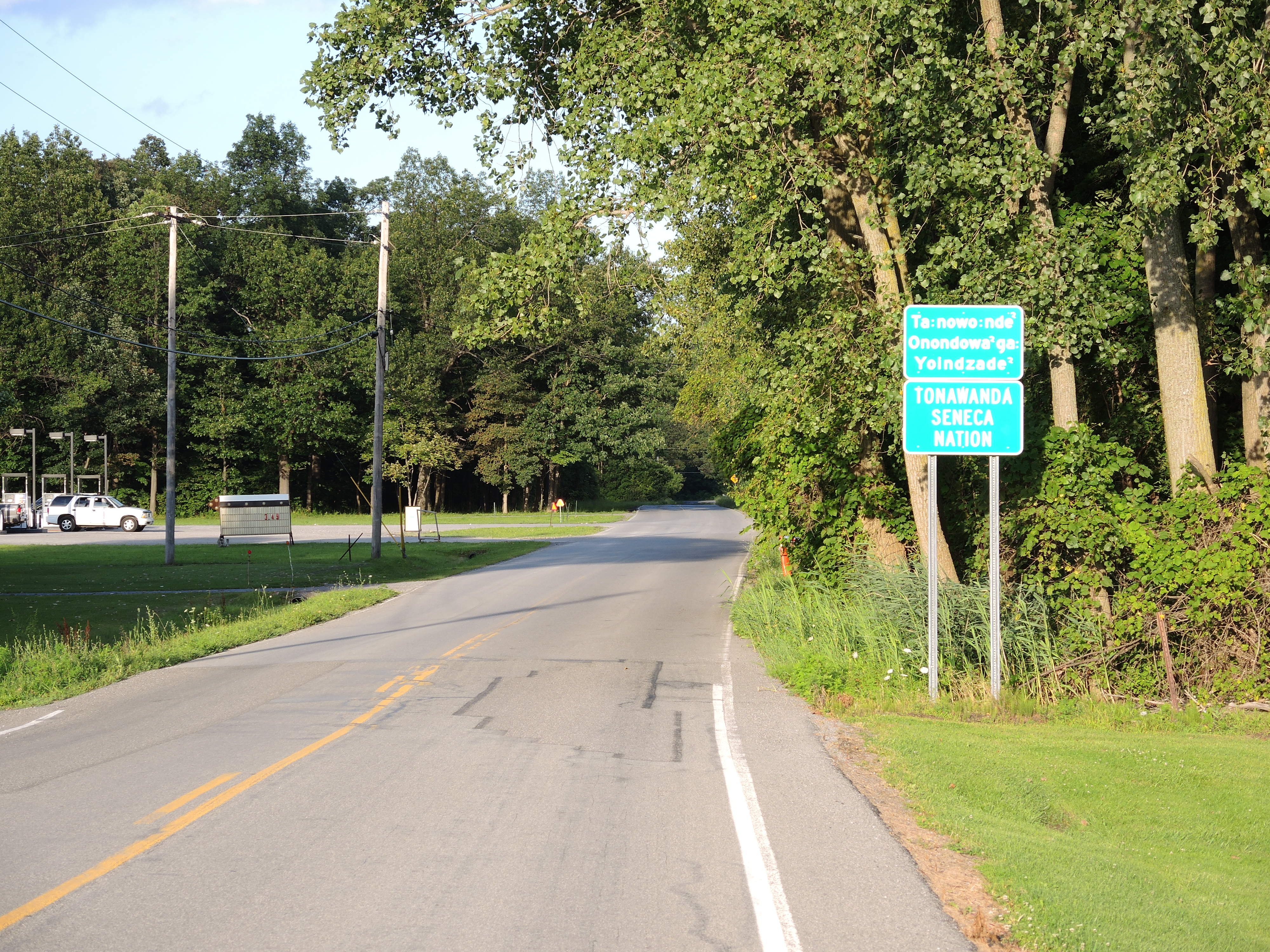 Tonawanda Reservation entrance as seen from Martin Road in Alabama, New York